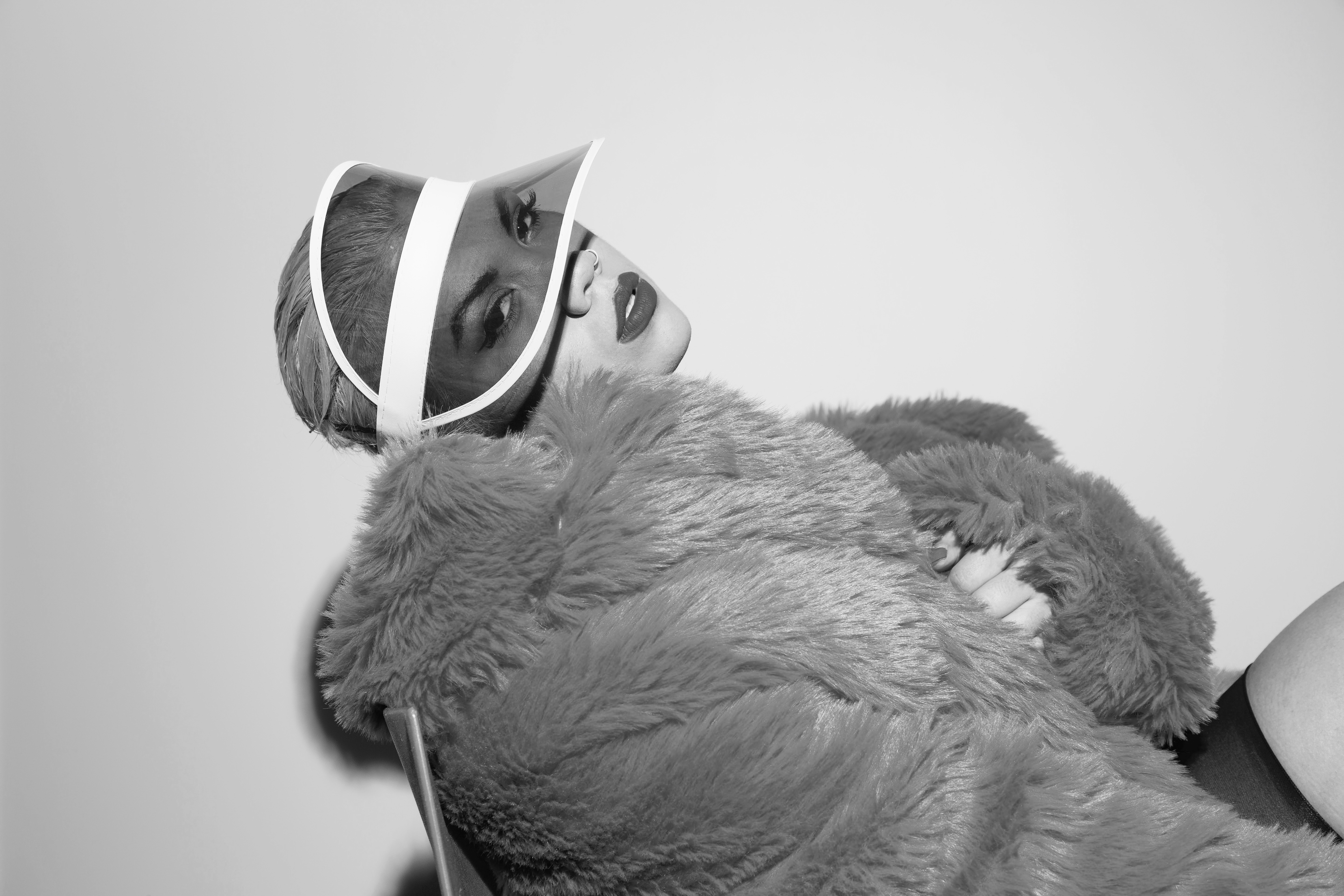 Photograph of Parris Goebel